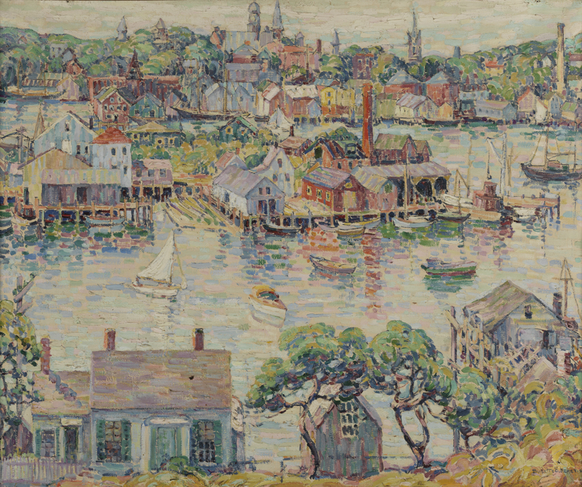 Inner Harbor purchased by the PAFA in 1923 with John Lambert Fund